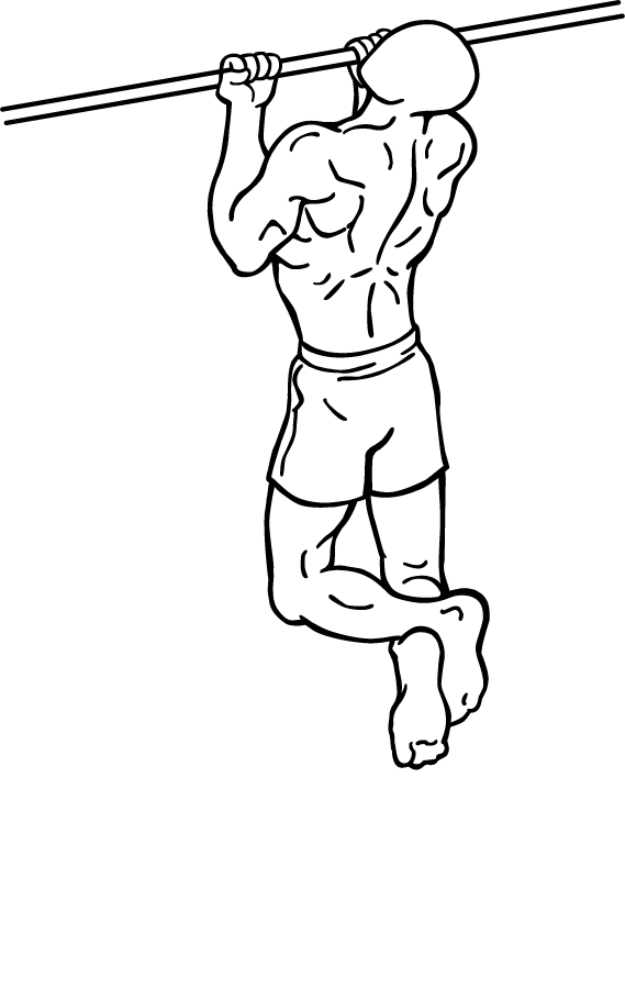 an exercise of upper back and biceps